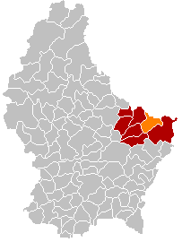 Own edit of Kanton EchternachLocatie.png